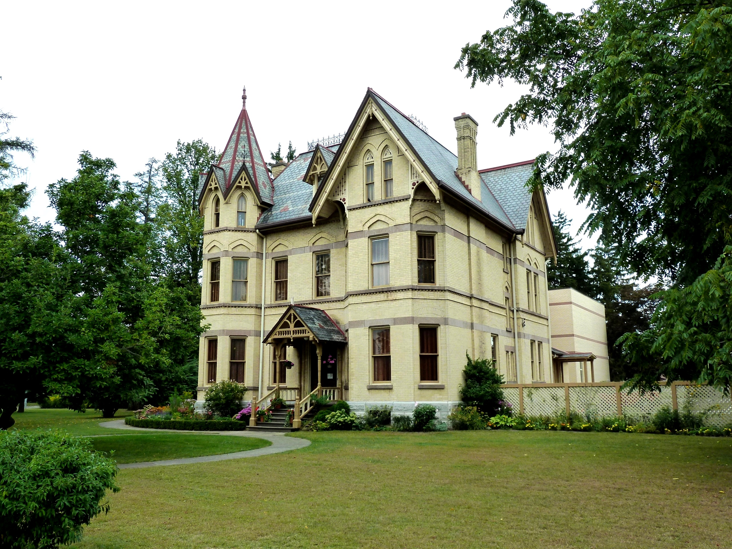 Annandale House is an impressive light-coloured brick residence in the Queen Anne style. It was built by Tillsonburg's first mayor, E.D. Tillson who owned sawmills and was a railway entrpreneur. The house has an outstanding interior which is on view for the public.